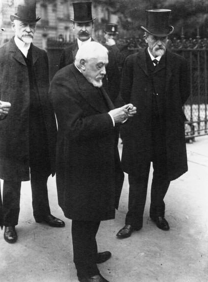 French industrialist and art collector Émile Guimet (1836-1918) attending an inauguration at the Musée Guimet in 1910.